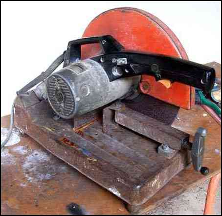 Makita cut-off saw. Photograph by Bill Bradley. Feel free to use it, just credit me as the photographer. You can contact me through my website.